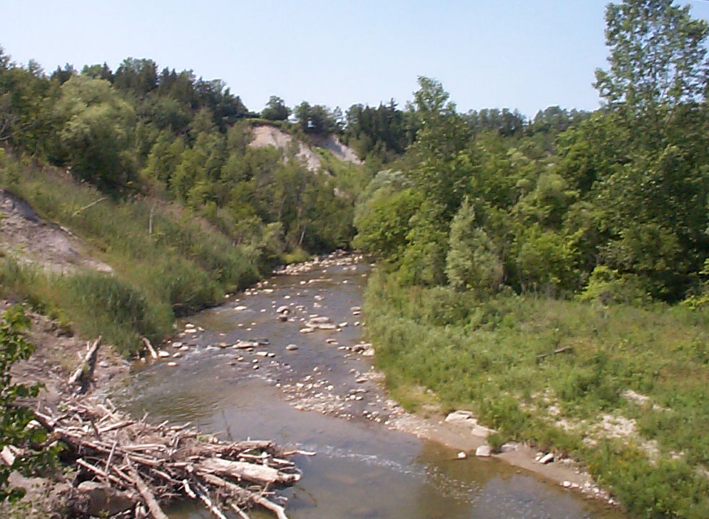 I took this photo WilyD 20:20, 8 July 2006 (UTC)